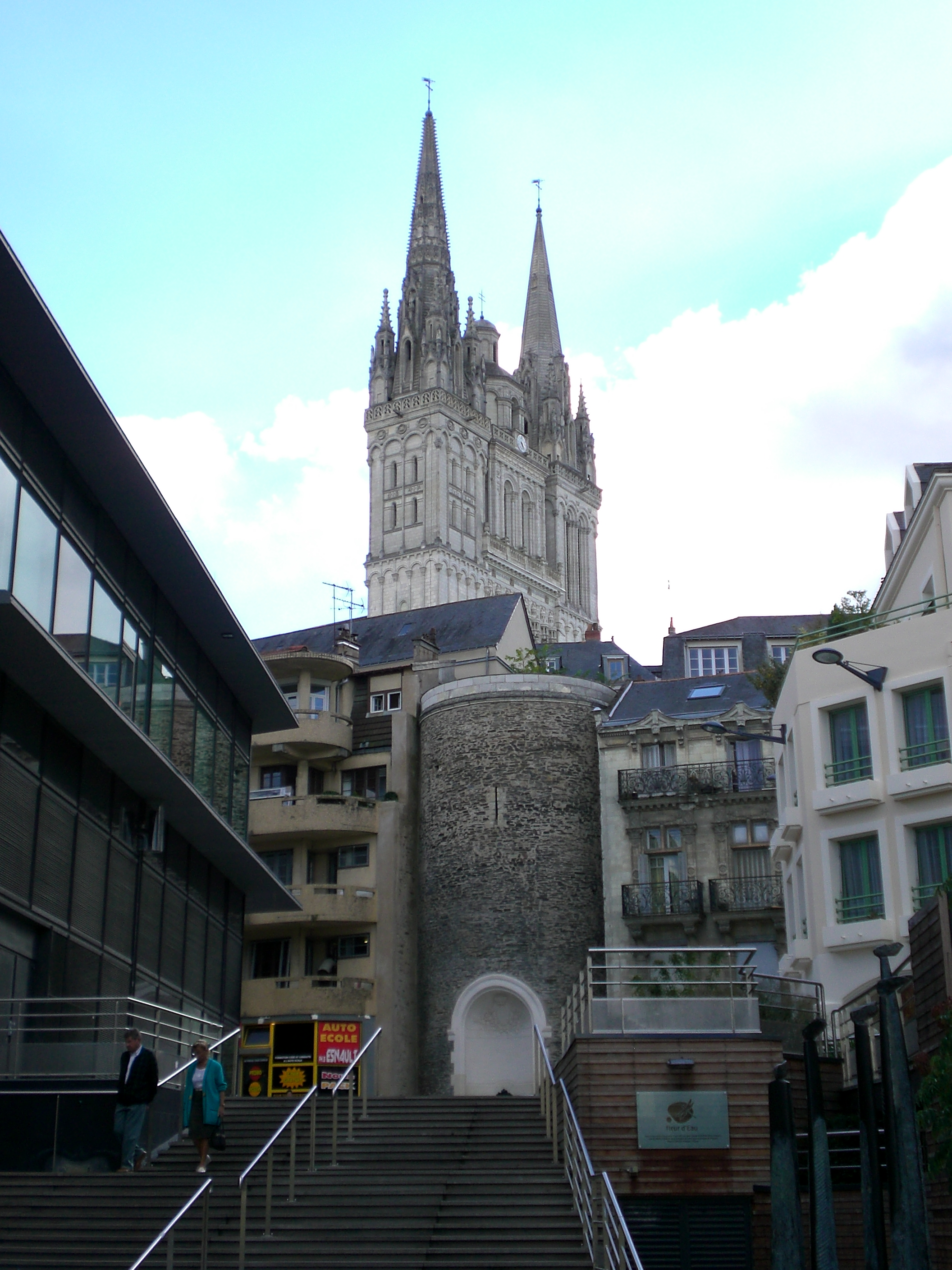 View of Villebon tower and Saint Maurice cathedral from the Place de la République in Angers, Maine-et-Loire, France.